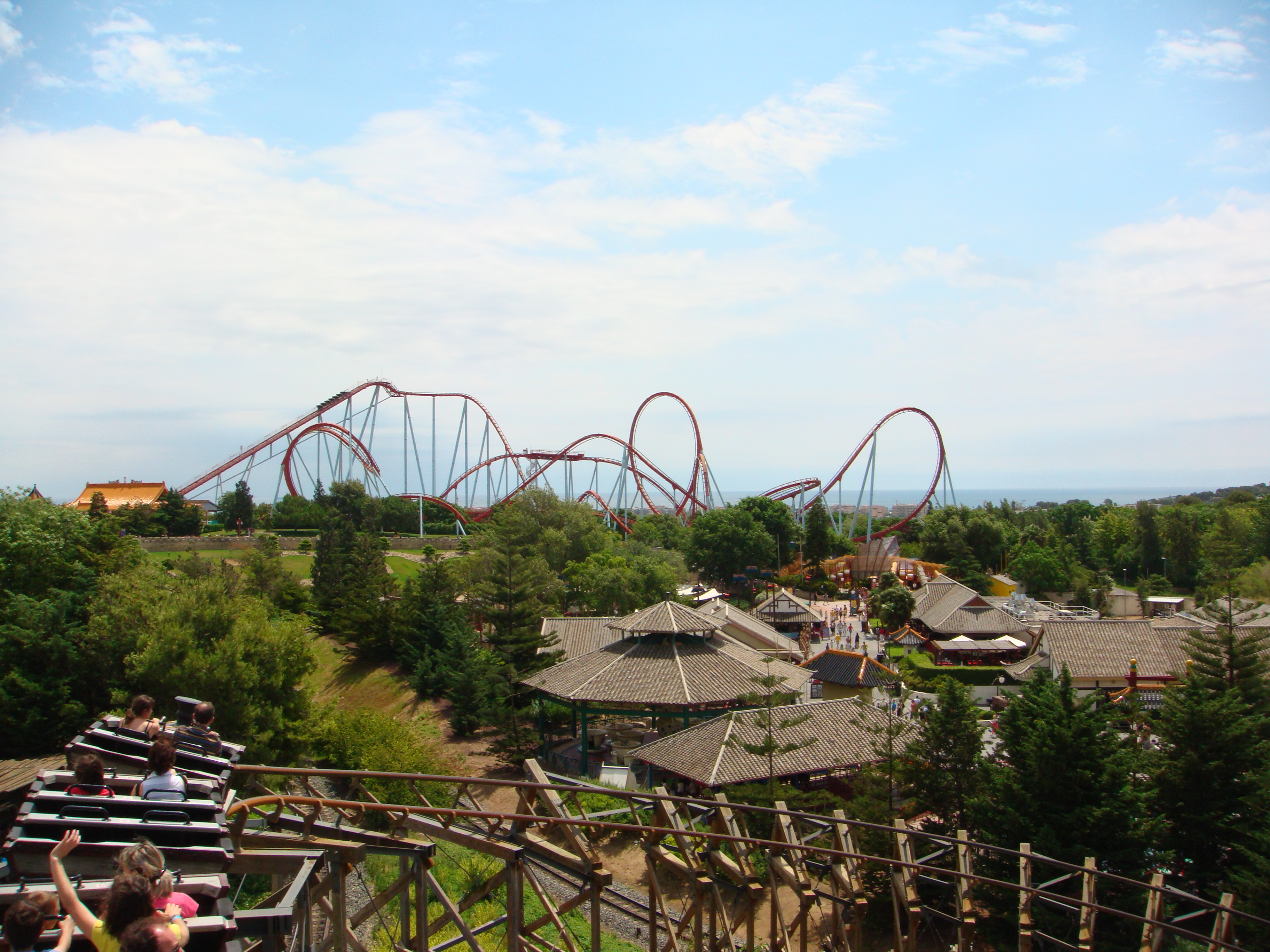 Dragon Khan high view.